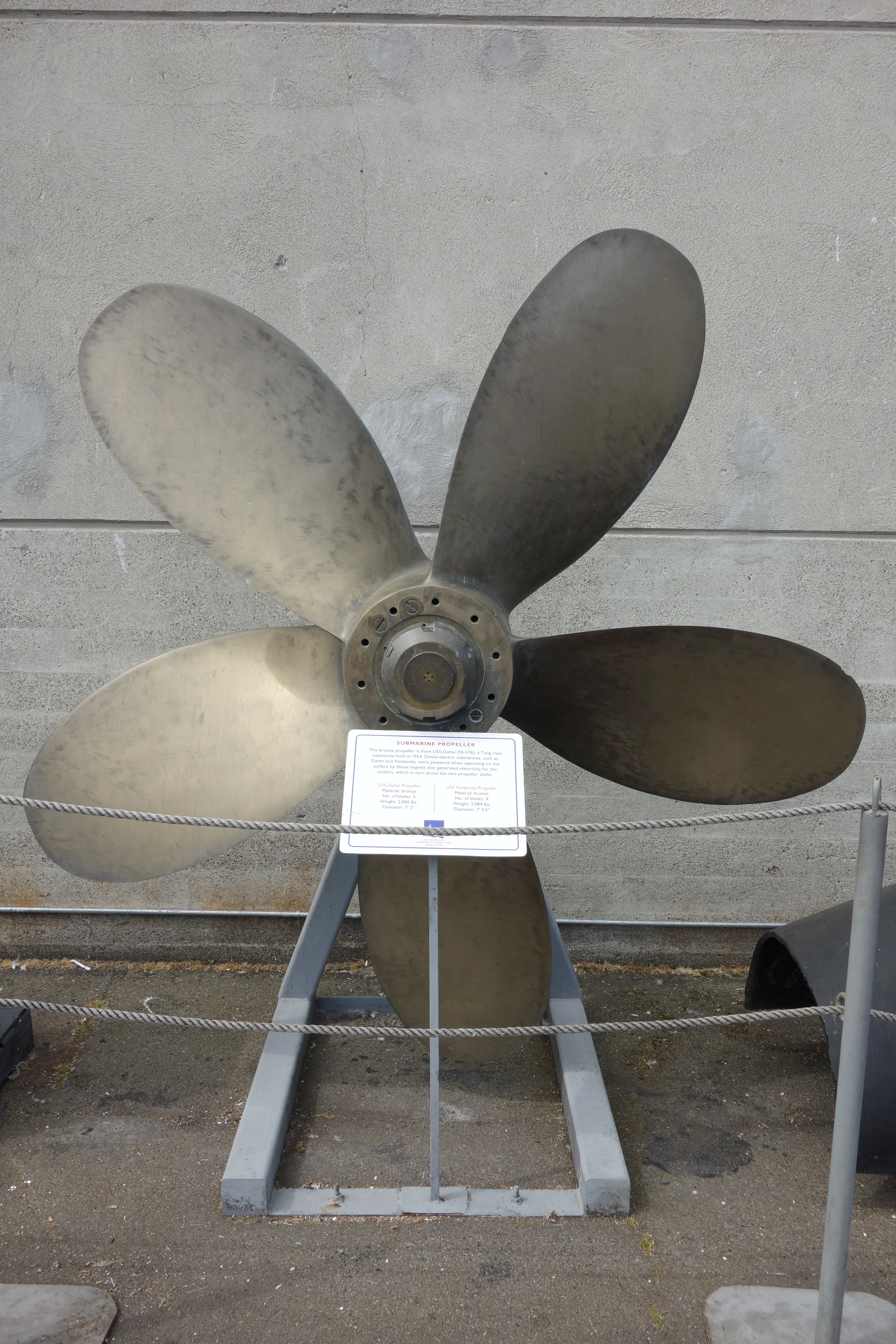 Propeller of USS Darter (SS-576), built in 1954, five blades, 2050 pounds, bronze - Fisherman's Wharf, San Francisco, California, USA.